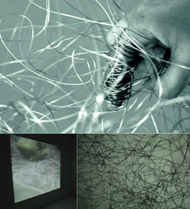 MA graduation artwork at Leeds University Gallery